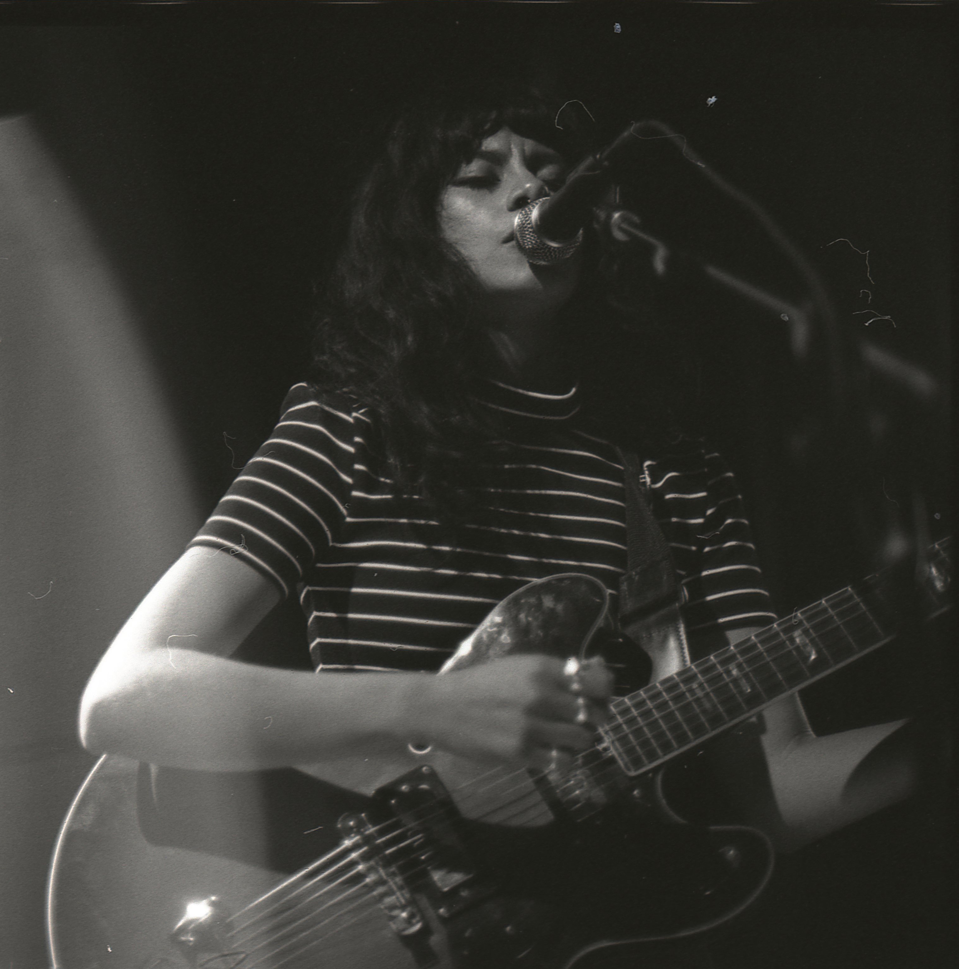 Sade Sanchez of garage-rock band L.A. Witch performs at The Chapel in San Fransisco, Calif., in 2015.